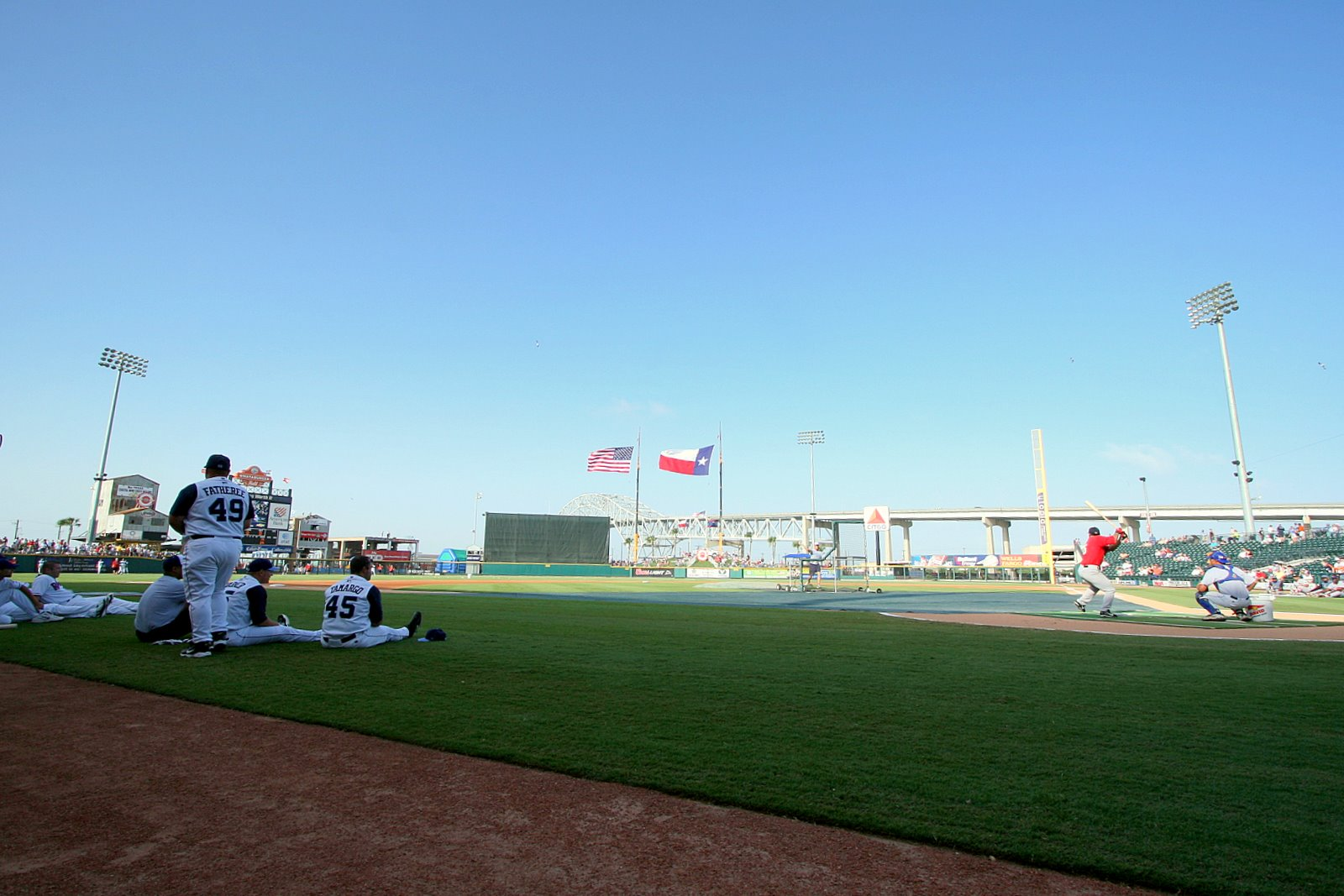 Whataburger Field, home of the Corpus Christi Hooks during the 2007 Home Run Derby. June 26, 2007 Photo: Tate Nations